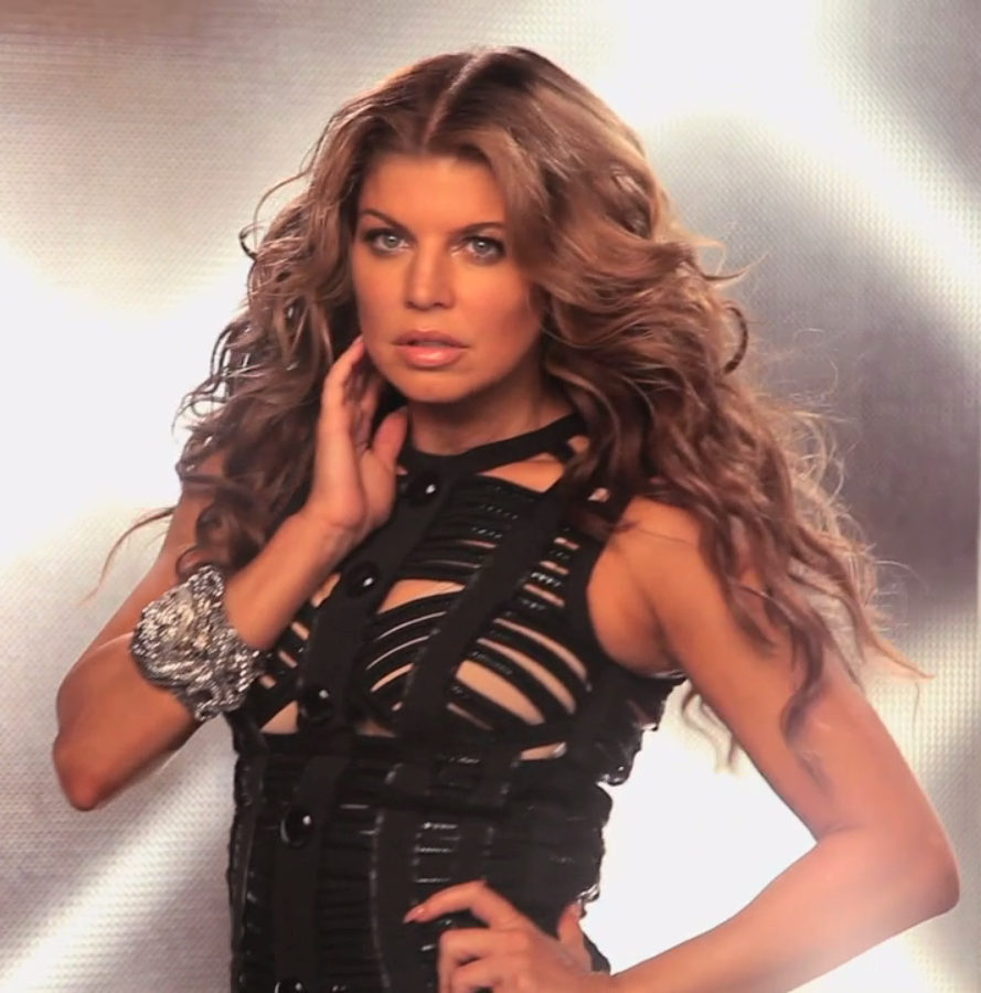 Fergie in a photoshoot for Avon in 2012